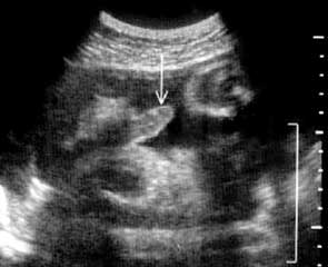 Sonographic 36 weeks fetus penile erection (white arrow)